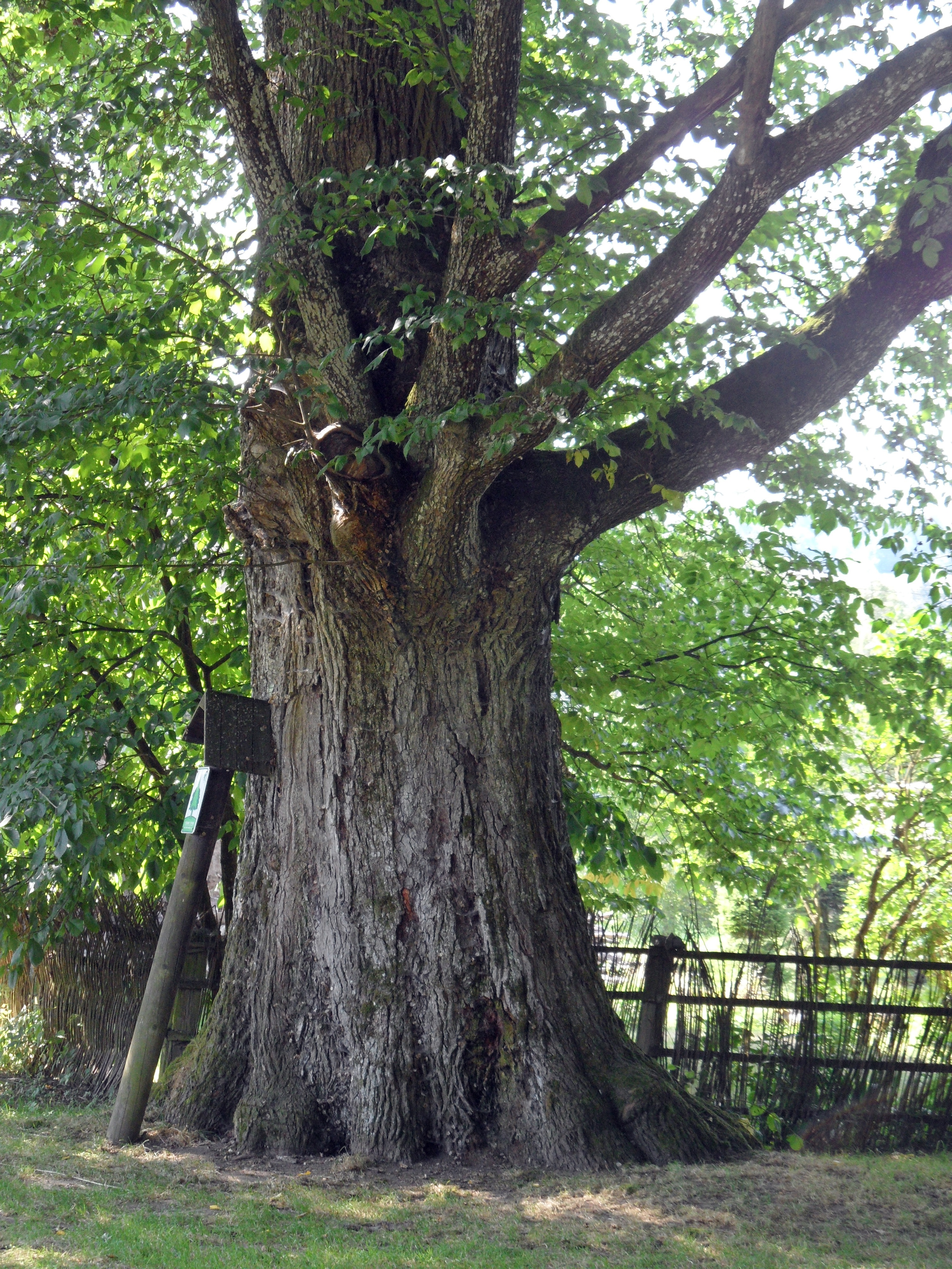 Přemilov 3. Famous tree Ulmus minor, Detail of Tree Trunk. Chrudim District, the Czech Republic.